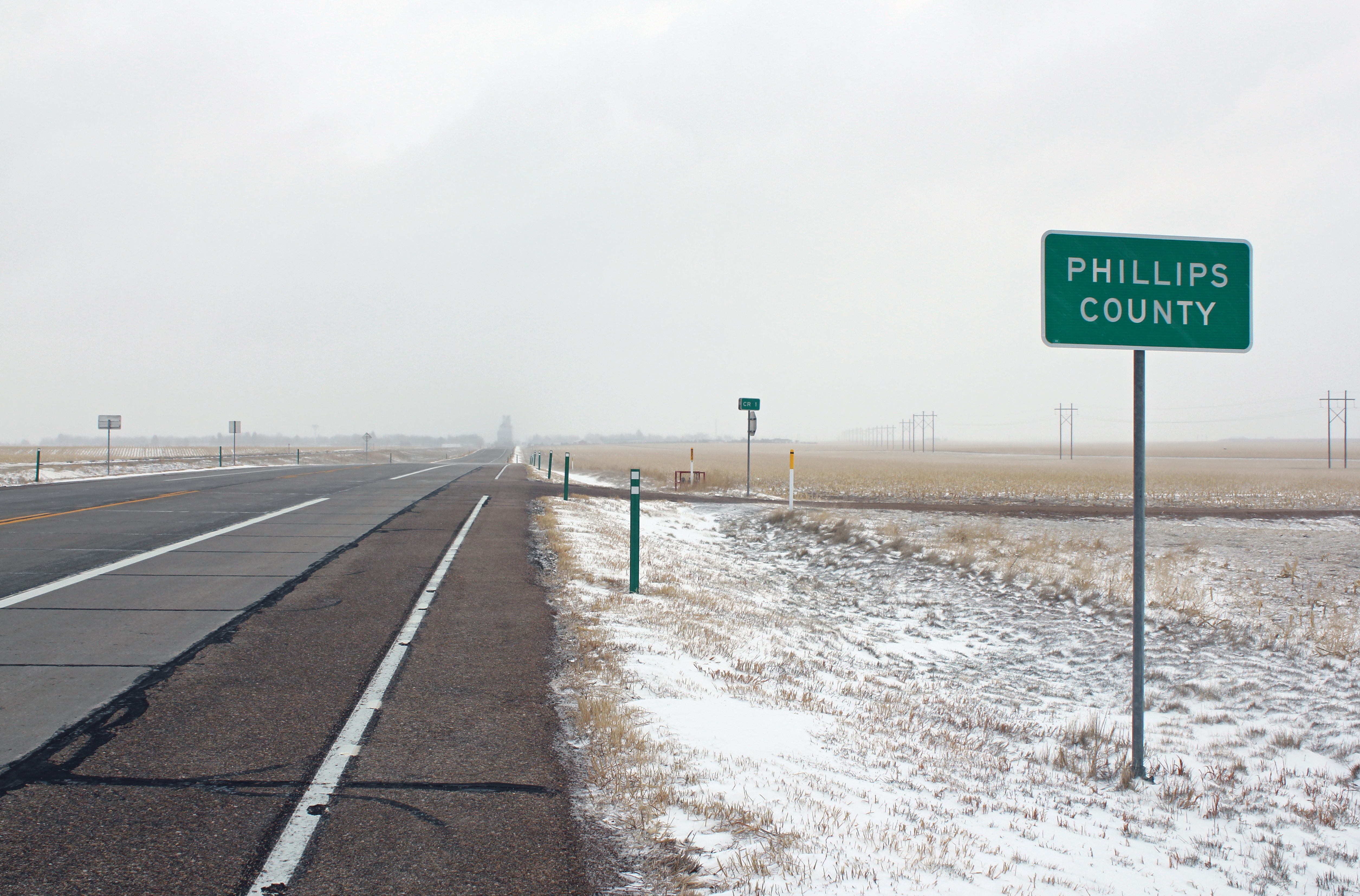 Phillips County, Colorado. The view is towards the east on U.S. Highway 6.